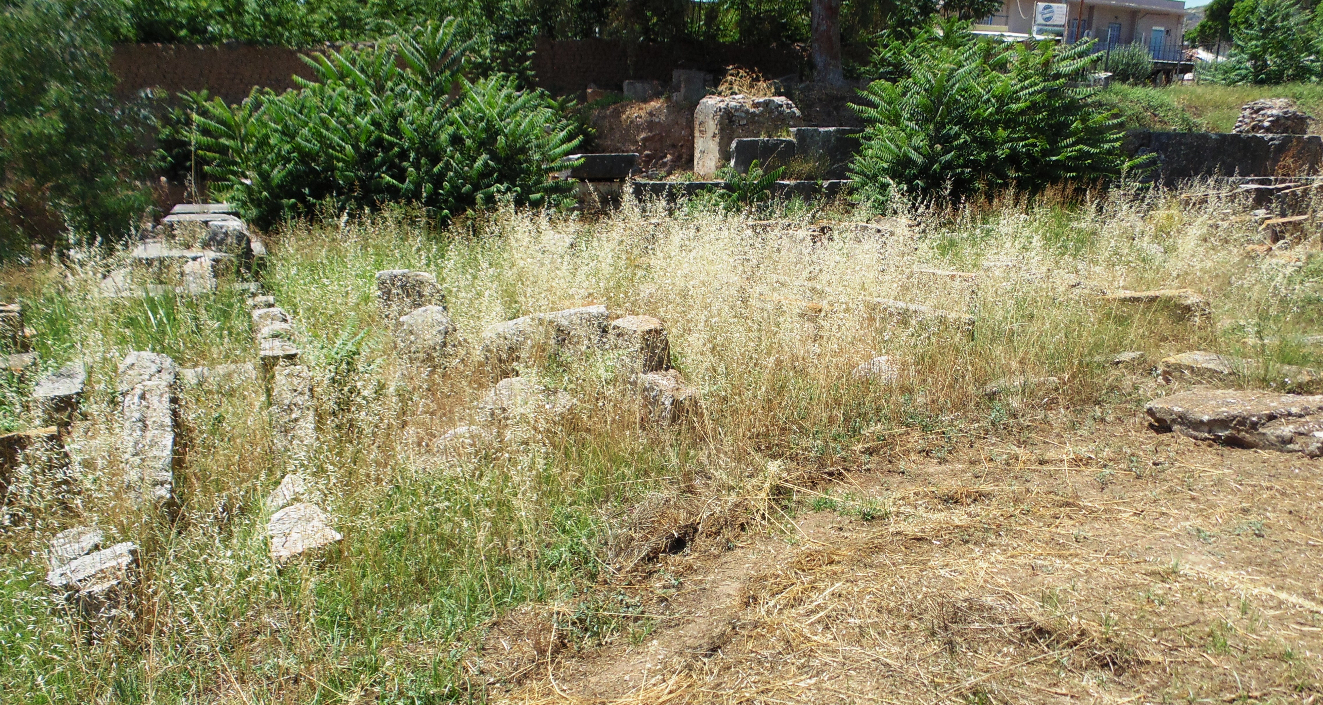 Ruins of Bouleuterion